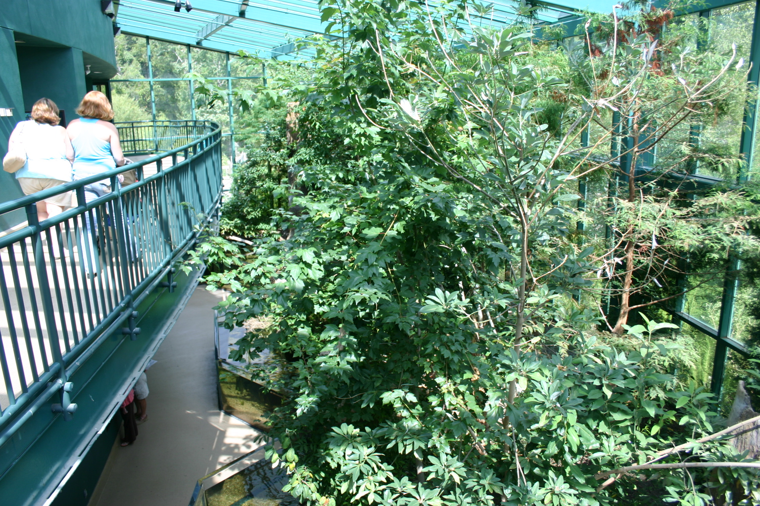 Indoor cypress swamp exhibit at the Virginia Living Museum in Newport News, Virginia